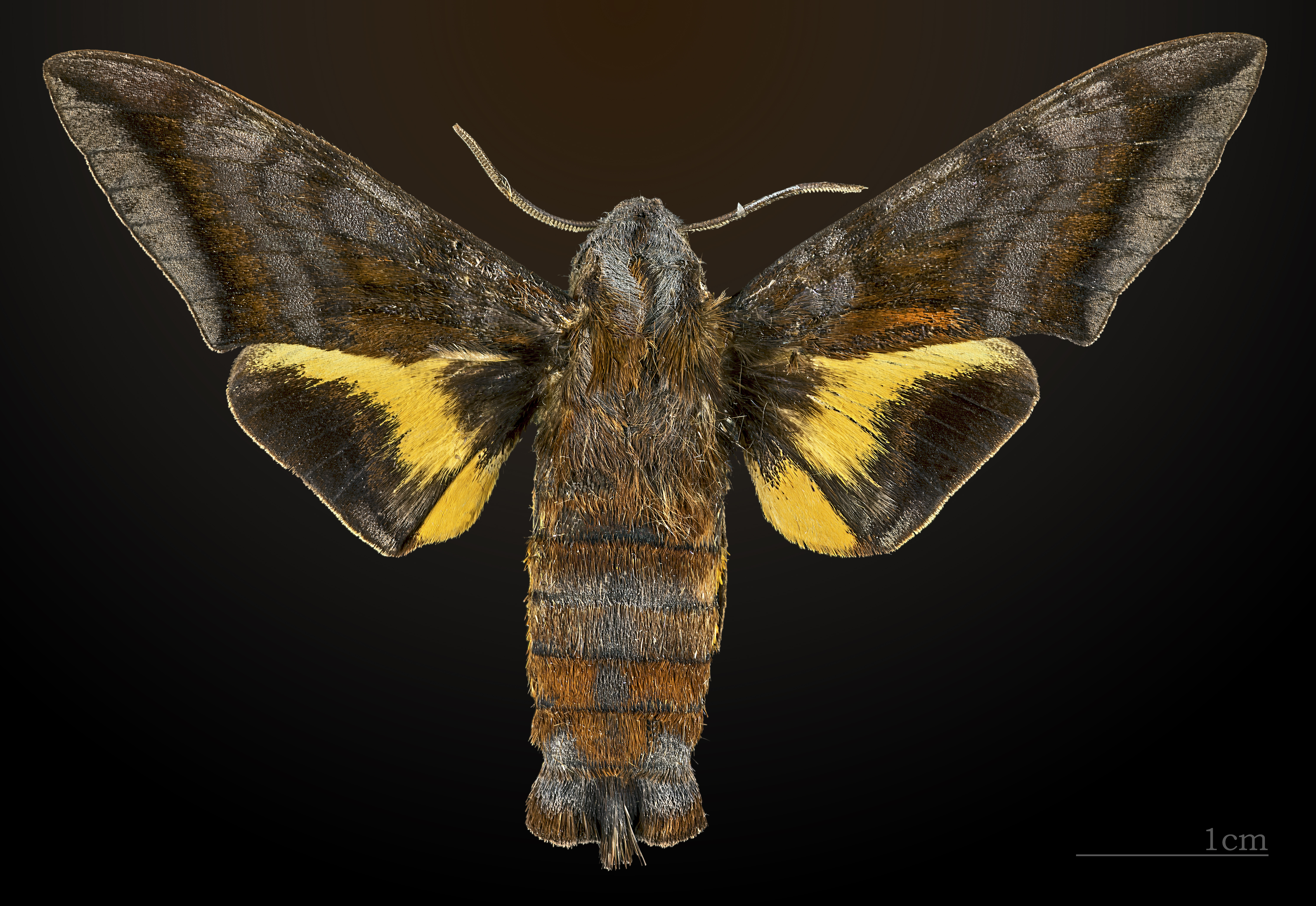 Eupyrrhoglossum corvus - Dorsal side Collection of the Mathematician Laurent Schwartz